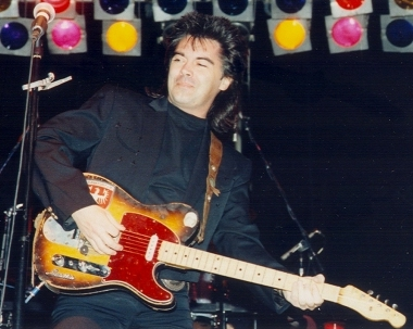 Marty Stuart - Jan 1993 Photo by Alan C. Teeple User:ACT1